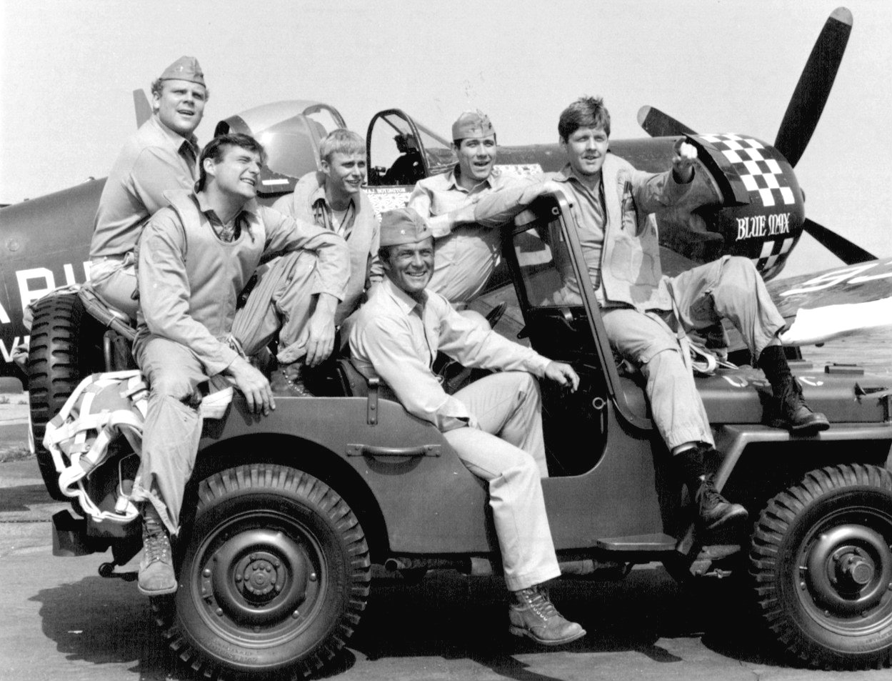 Photo of the cast of the television series Baa Baa Black Sheep.